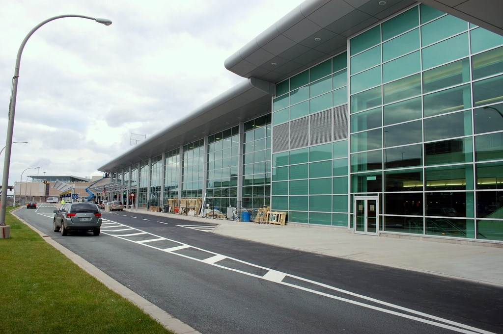 Halifax International Airport in early October, 2009. Please note the Creative Commons Attribution-ShareAlike 3.0 licensing.